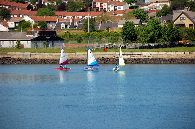 Dock 3 Methil (2) Former dock now used for recreational purposes